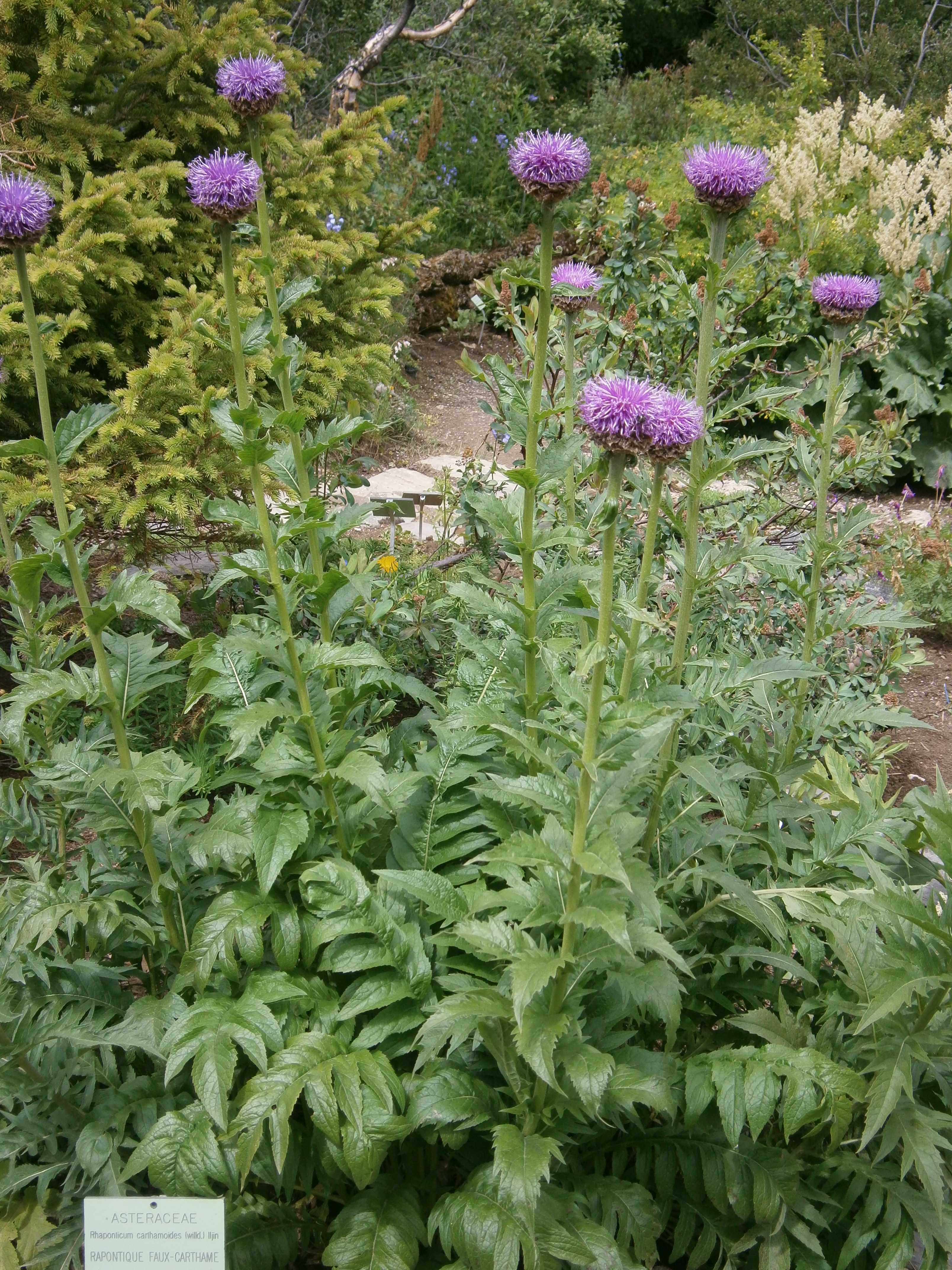 Rhaponticum carthamoides in the Jardin Botanique Alpin du Lautaret